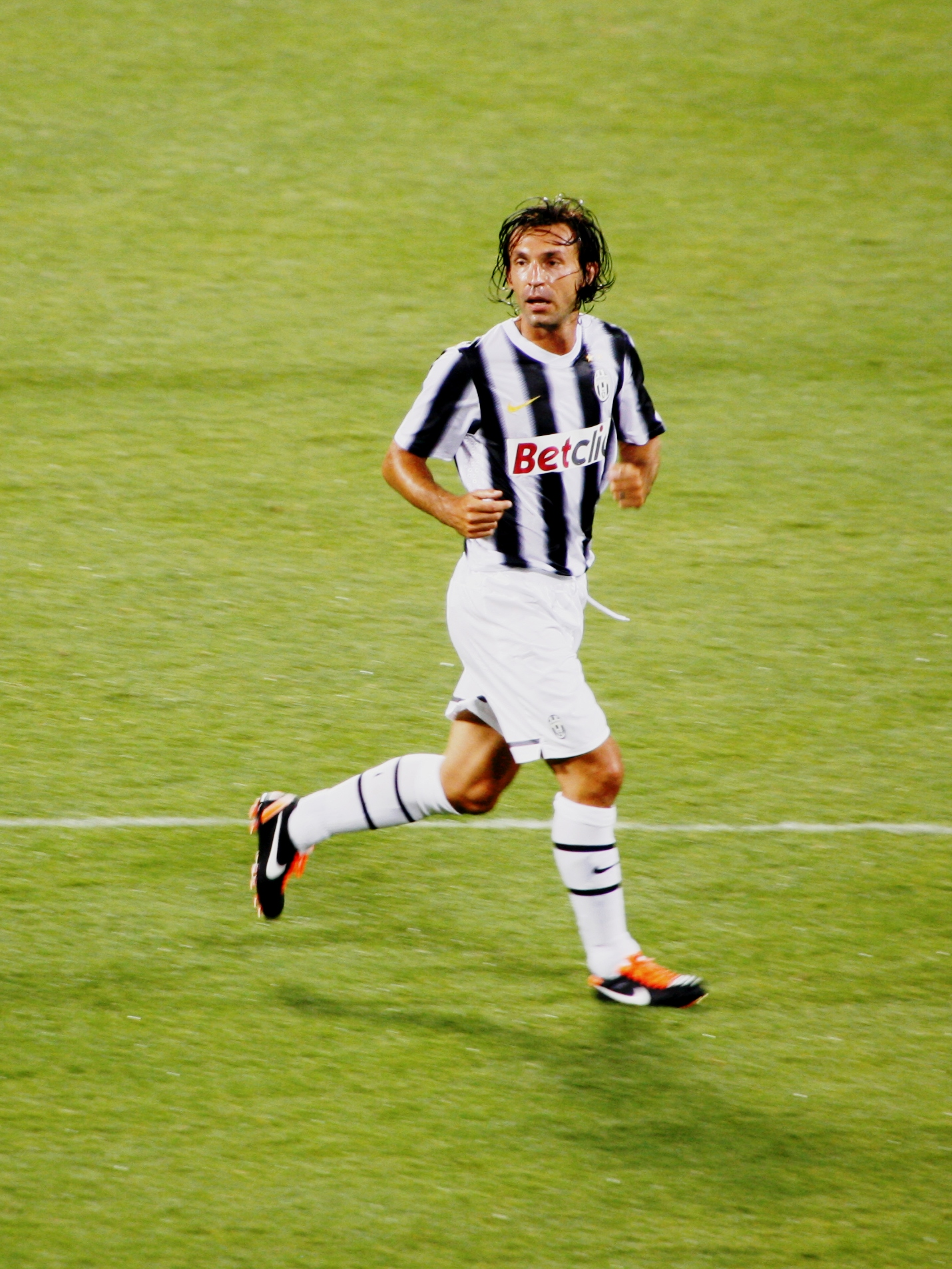 Andrea Pirlo (Juventus vs Club America)